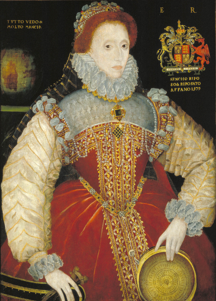 Elizabeth I, Queen of England, depicted with a sieve in her left hand. The sieve alludes to the myth of Tuccia, a roman Vestal Virgin who proved her virginity by carrying water with a sieve.